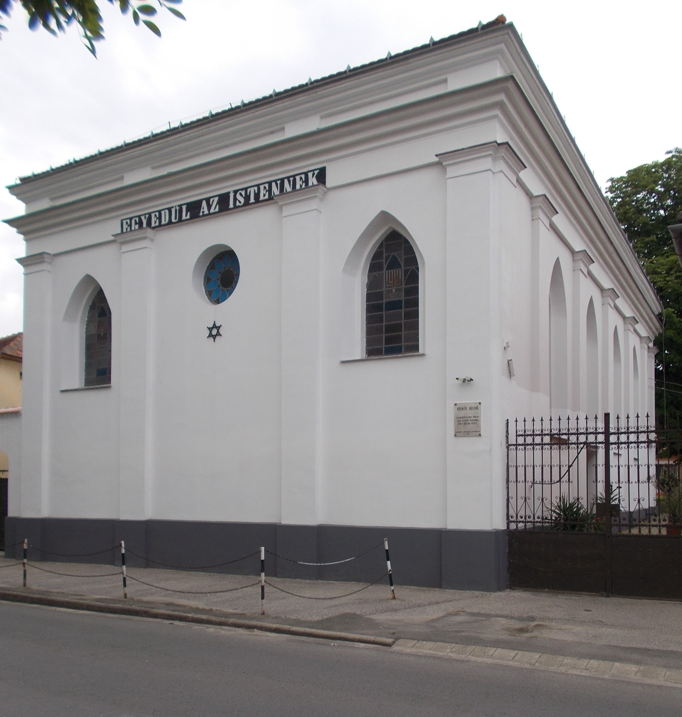 Synagogue built in Neo-Classic early Romantic style, between 1857 and 1860. - Petőfi utca, Kiskunhalas, Bács-Kiskun County, Hungary.